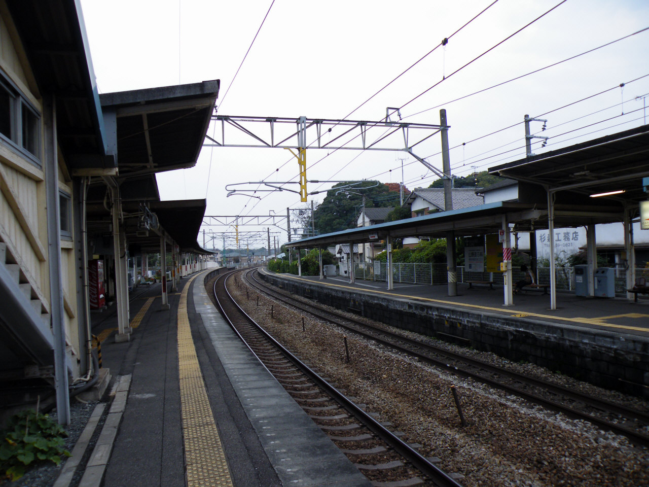 Mizuki Station enclosure